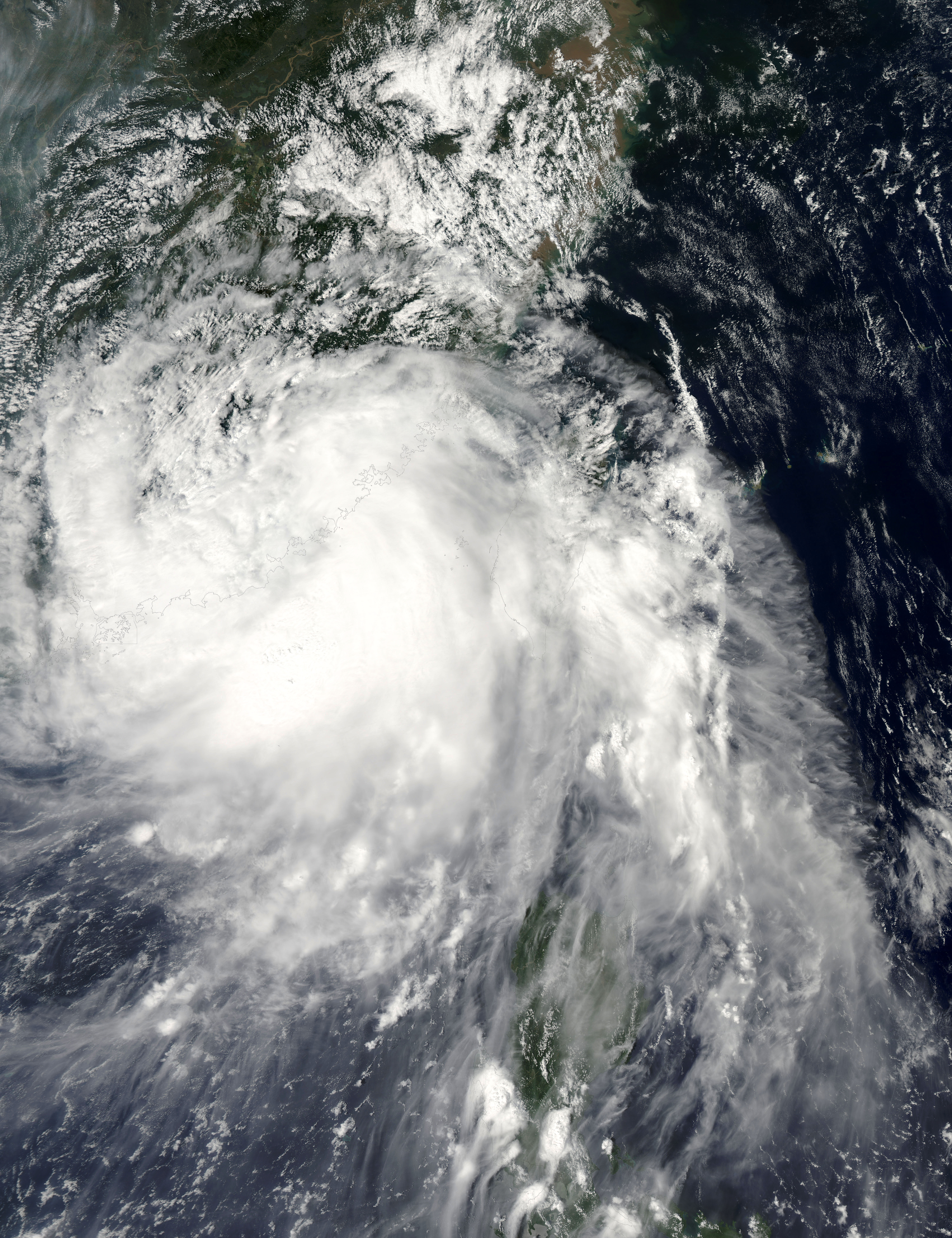 Tropical Storm Fanapi nearing China on September 20, 2010.